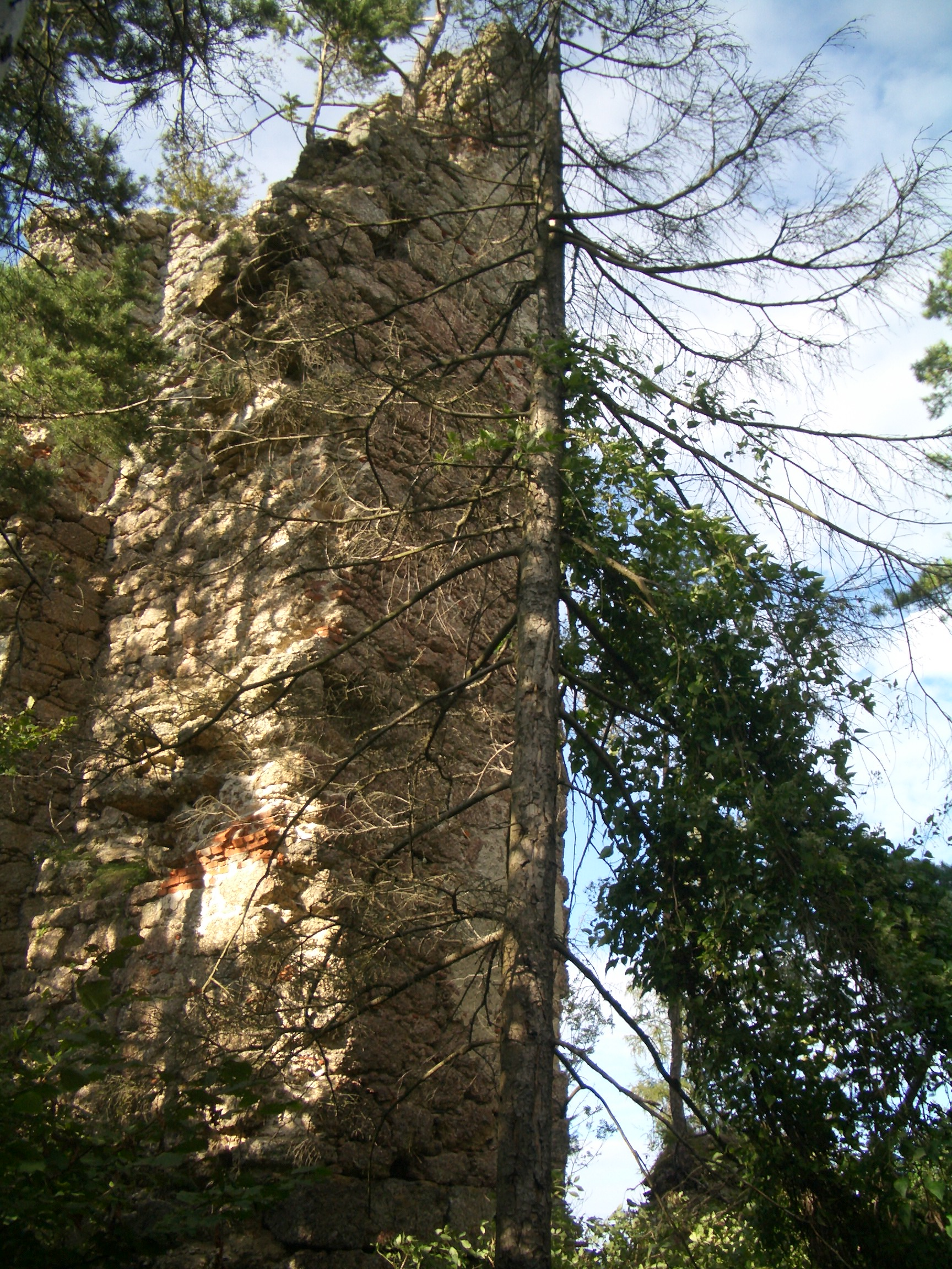 Murial rests oft the tower of ruin Klingenberg (Upper Austria)